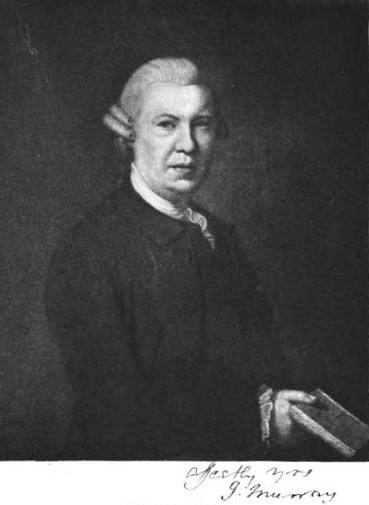 Picture of John Murray (1745-1793), the founder of the British publishing house